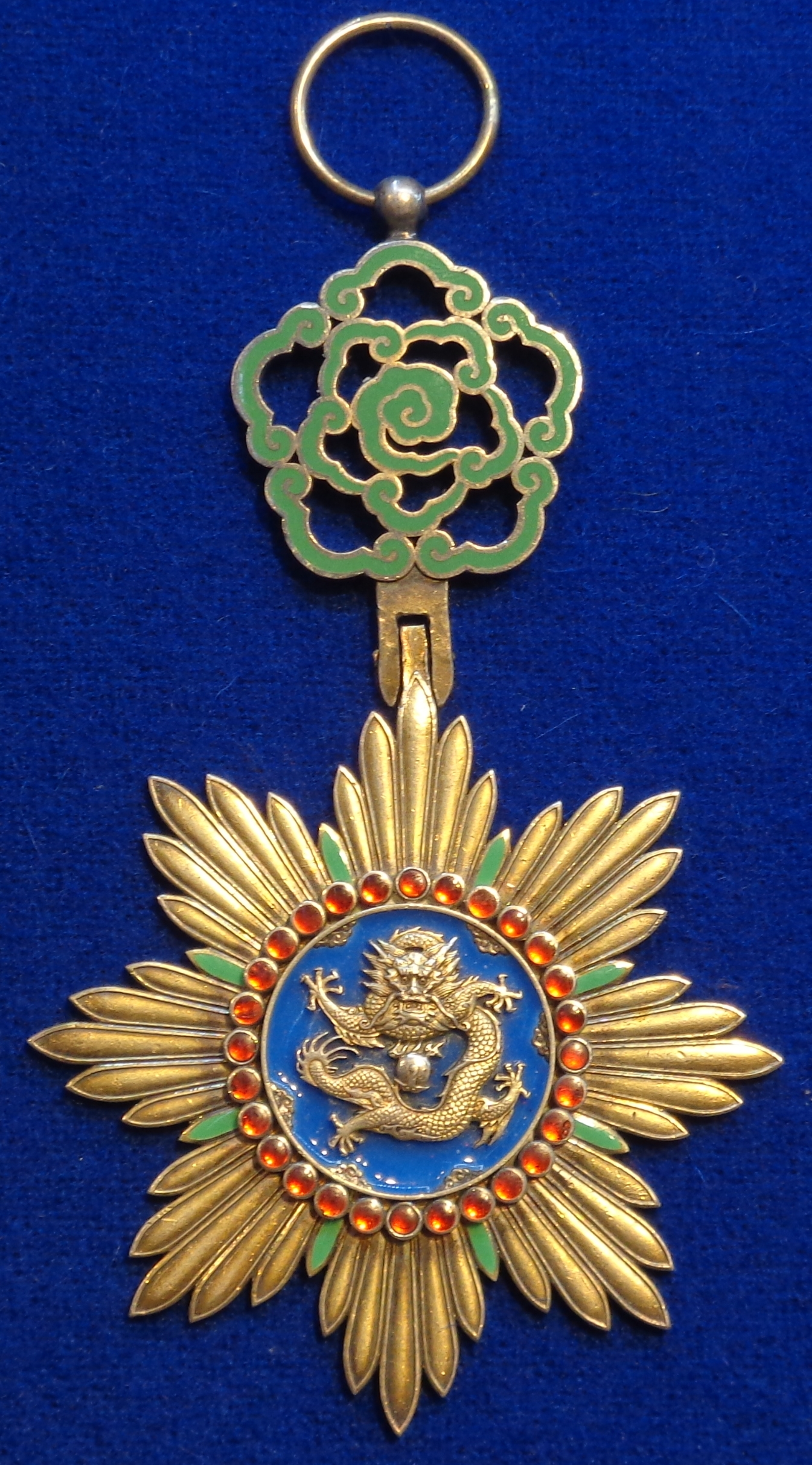 Order of the Illustrious Dragon, badge. Empire of Manchukuo. The exhibition of the Tallinn Museum of Orders of Knighthood, Estonia.